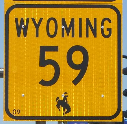 Profile of a Wyoming state highway sign, namely that of Wyoming Route 59.